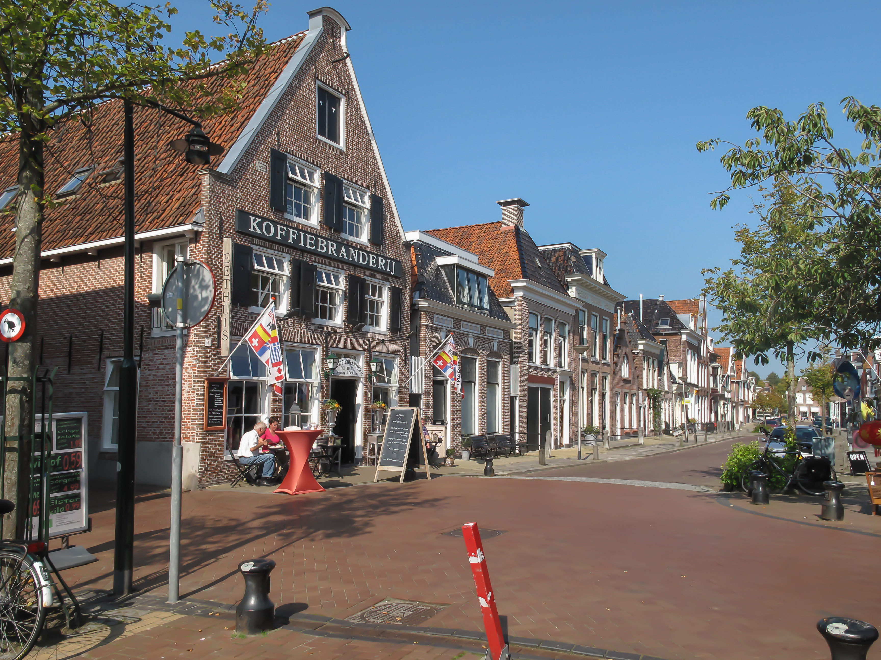 Dokkum, view to a street